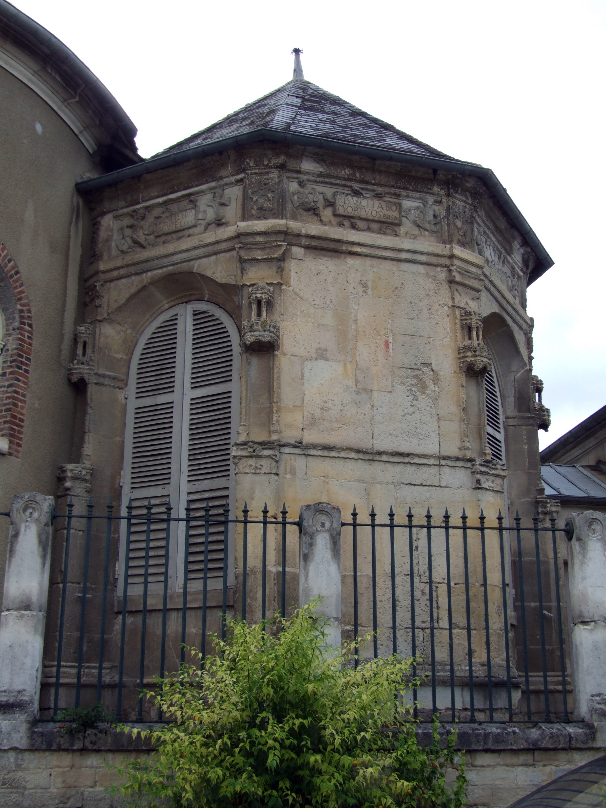 Joigny, Yonne, Burgundy, FRANCE